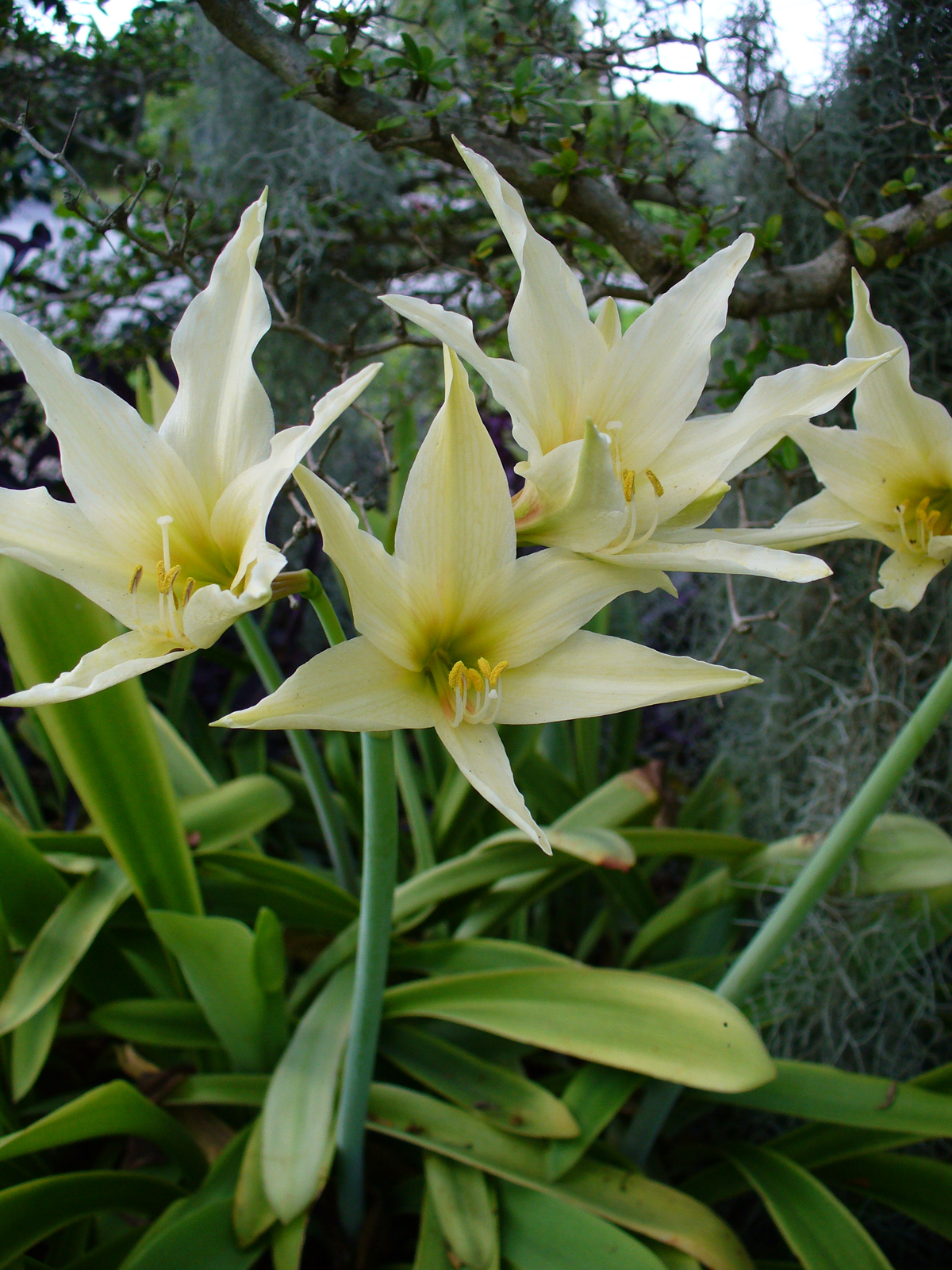 Hippeastrum evansiae cultivated in South Miami, FL, USA